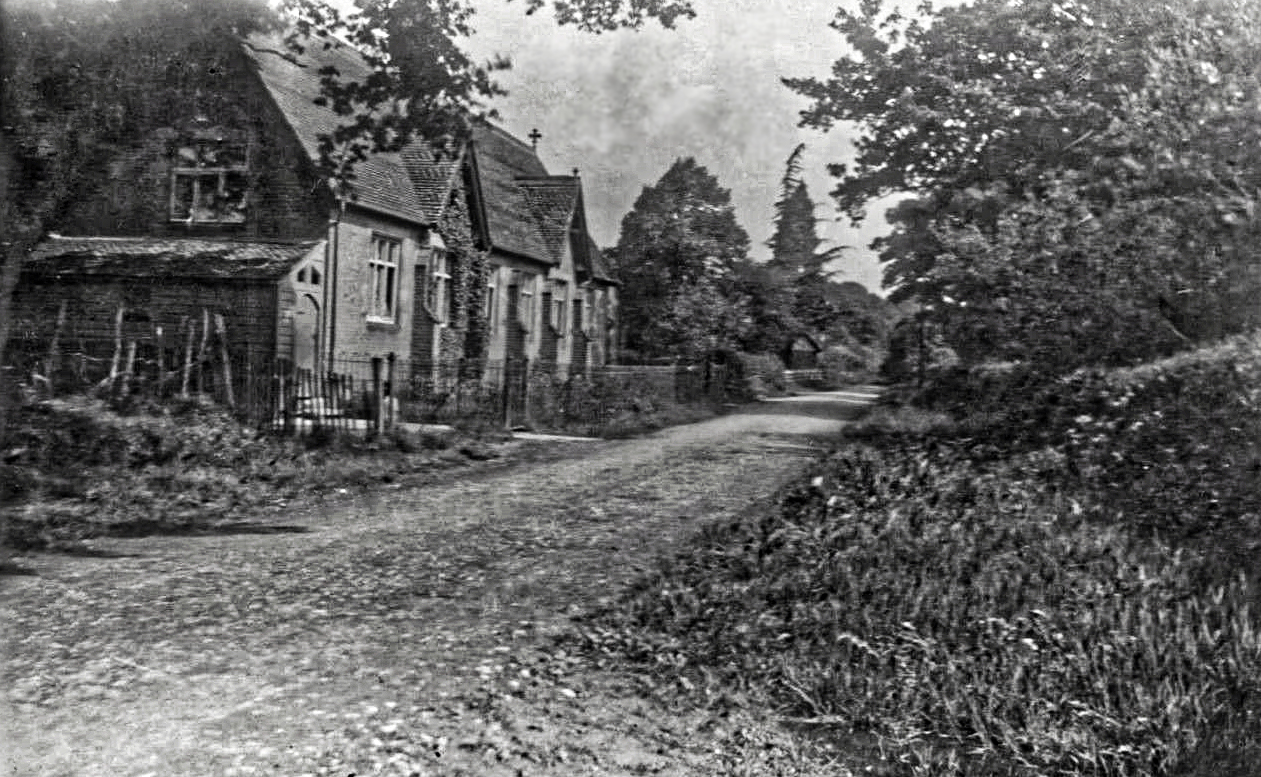 St Andrew's Primary School on Nuthurst Street looking north in Nuthurst, West Sussex, England. The school was built as a National School in 1856 on the site of a previous school established in 1824. This new mixed school, shown here, was of one classroom for 76 pupils, and a teacher's house. The school was extended at the rear in 1961. Despite its age, the school is unlisted. The postcard photograph is from the second half of the 19th century, with no indication of photographer or publisher. The edges of the card have been trimmed of damage.